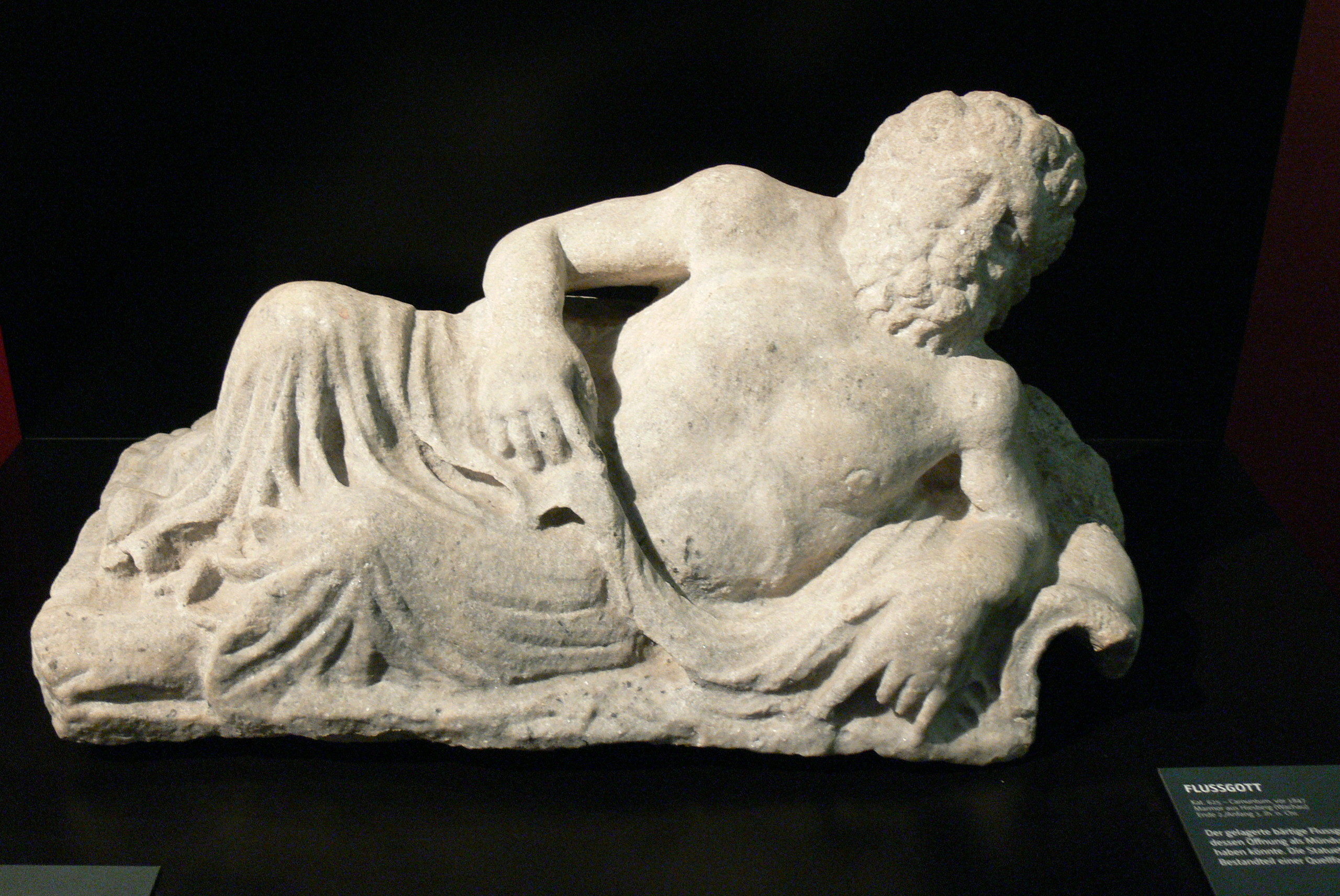 Museum Carnuntinum (Lower Austria). Sculpture of river deity ( 3rd century ), maybe Danubius.